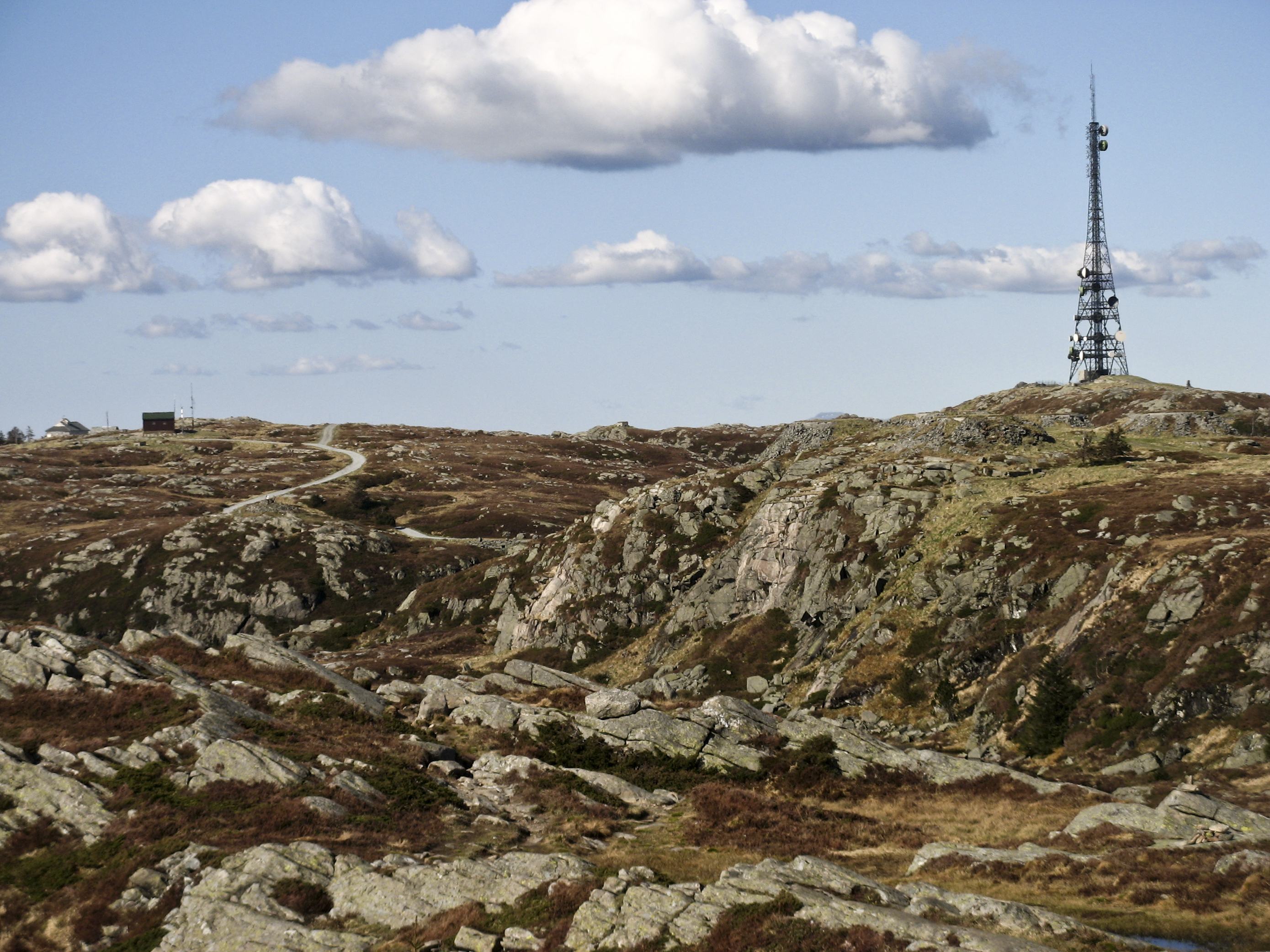 One of the mountains that surrounds Bergen